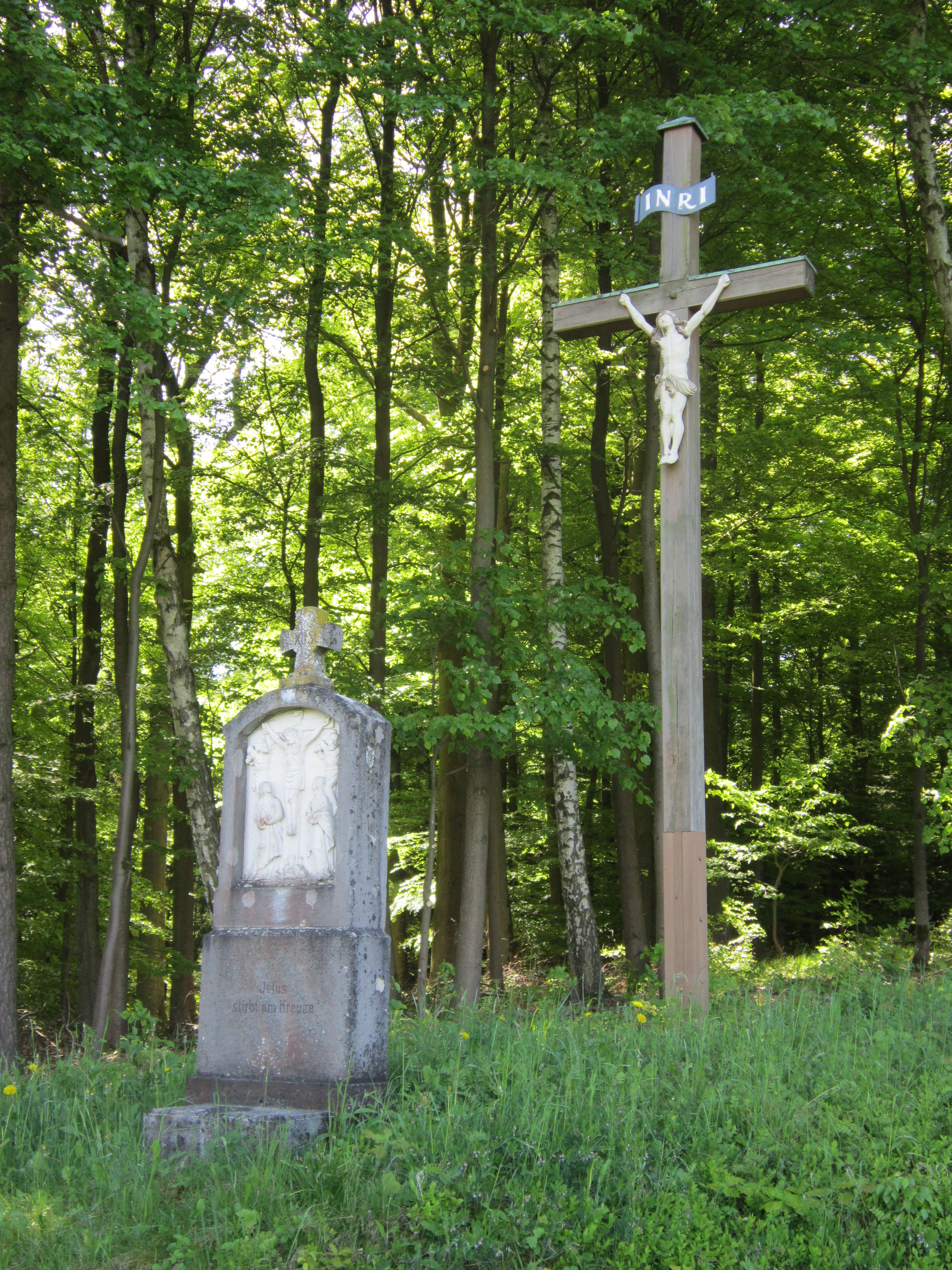 12th Station of the Way of the Cross with a cross next to it in Albertshausen, a quarter of the German spa town of Bad Kissingen in Lower Franconia (Bavaria).